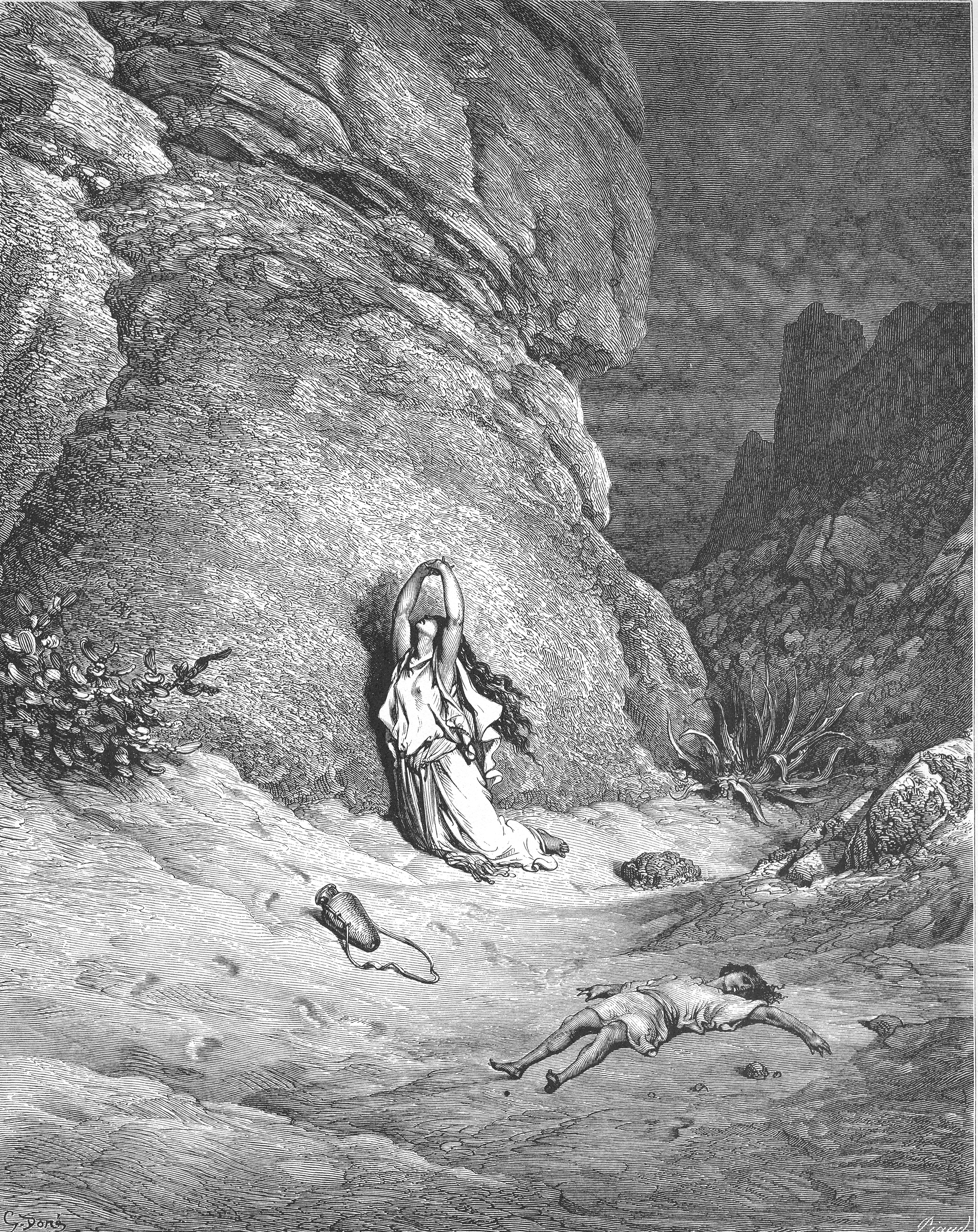 Hagar and Ishmael in the Wilderness (Gen. 21:14-20)